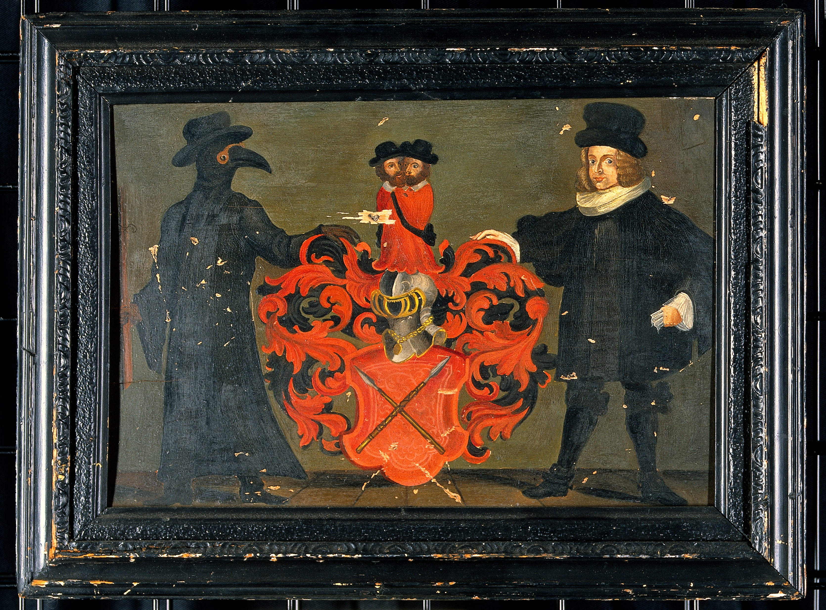 Theodore Zwinger III (1658-1724): coat of arms with portrait. Oil painting. Iconographic Collections